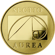 10 litas gold coin, issued as an item of the international programme "The Smallest Gold Coins of the World. History of Gold" Gold Au 999 Quality proof Diameter 13.92 mm Weight 1.244 g (1/25 oz) Edge reeded The designer of the coin are Liudas Parulskis and Rytas Jonas Belevicius Maximum mintaged 15,000 pcs Issued 2007 The coin was minted at the UAB Lithuanian Mint